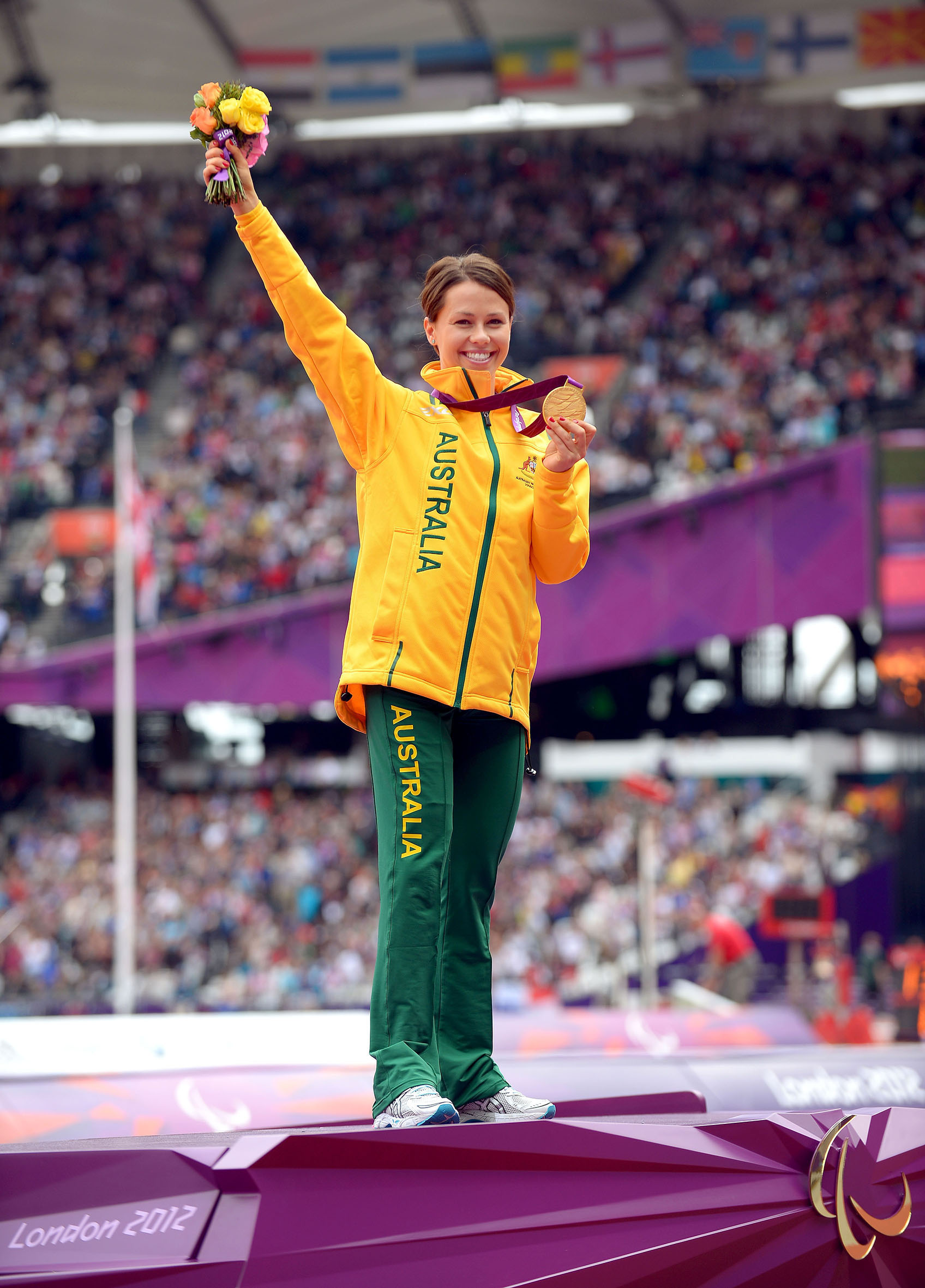 Photograph of Australian Paralympic team member Kelly Cartwright at the 2012 Summer Paralympic Games in London